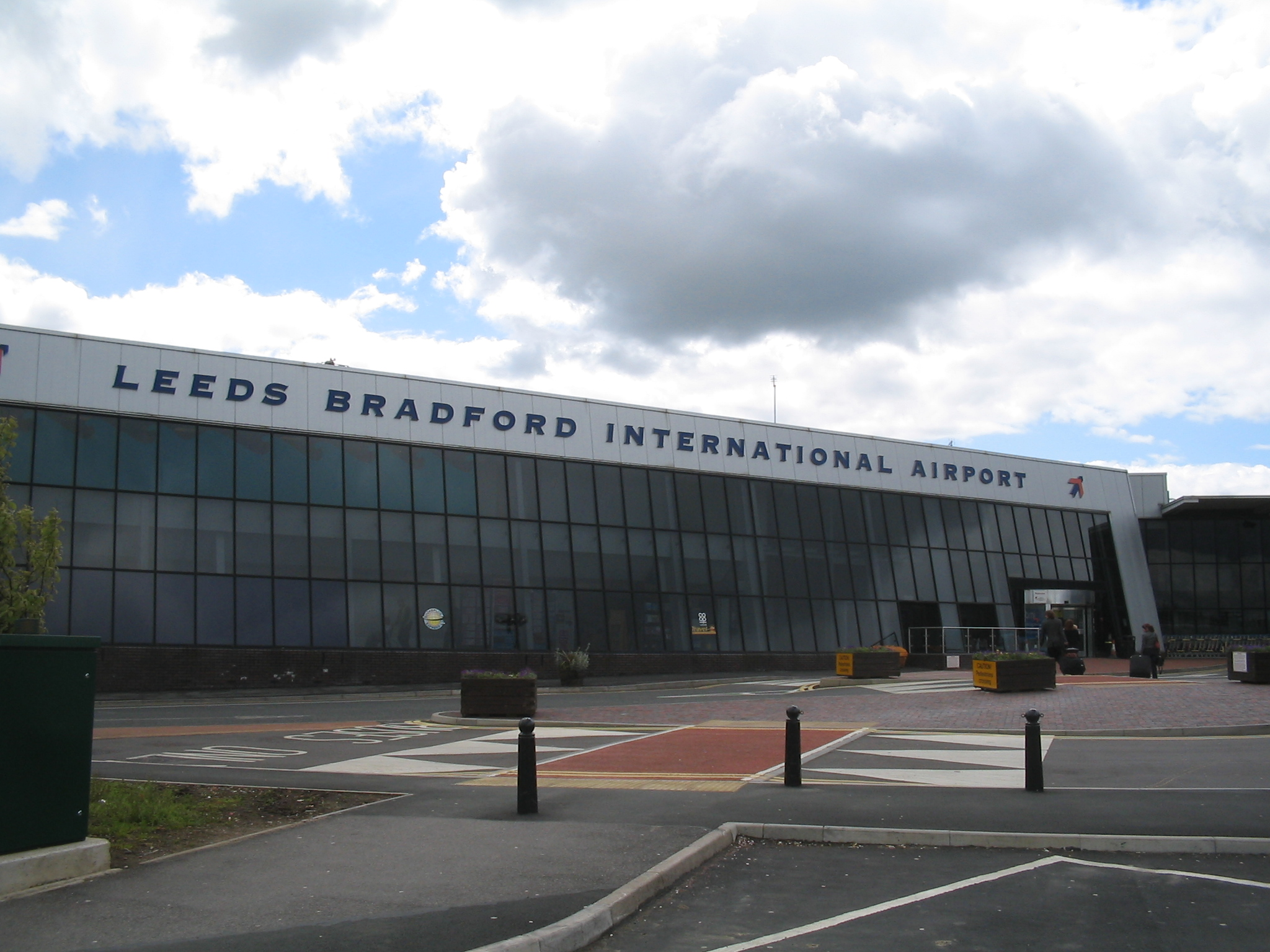 The terminal at Leeds Bradford International Airport. The view is rotated left from Image:Leeds Bradford International Airport terminal.jpg David Benbennick took this photo on Monday, May 9, 2005 at 12:11 PM (11:11 UTC).